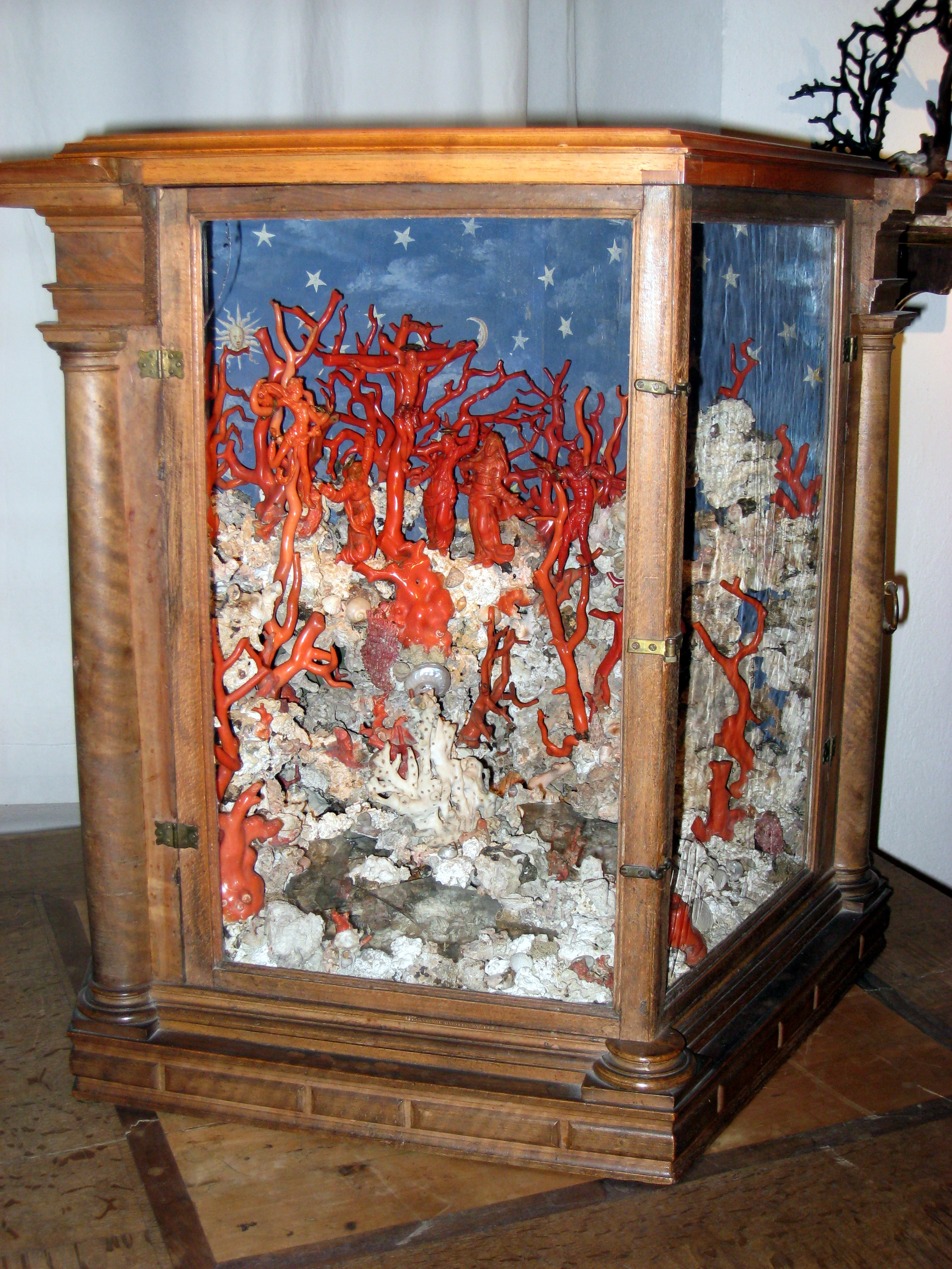 Schloss Ambras, Innsbruck, Austria - from the castle's collection of art and curiosities. Crucifixion made of coral and other materials.